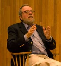 American film critic, David Denby, speaking at the Berkeley School of Journalism, January 2009